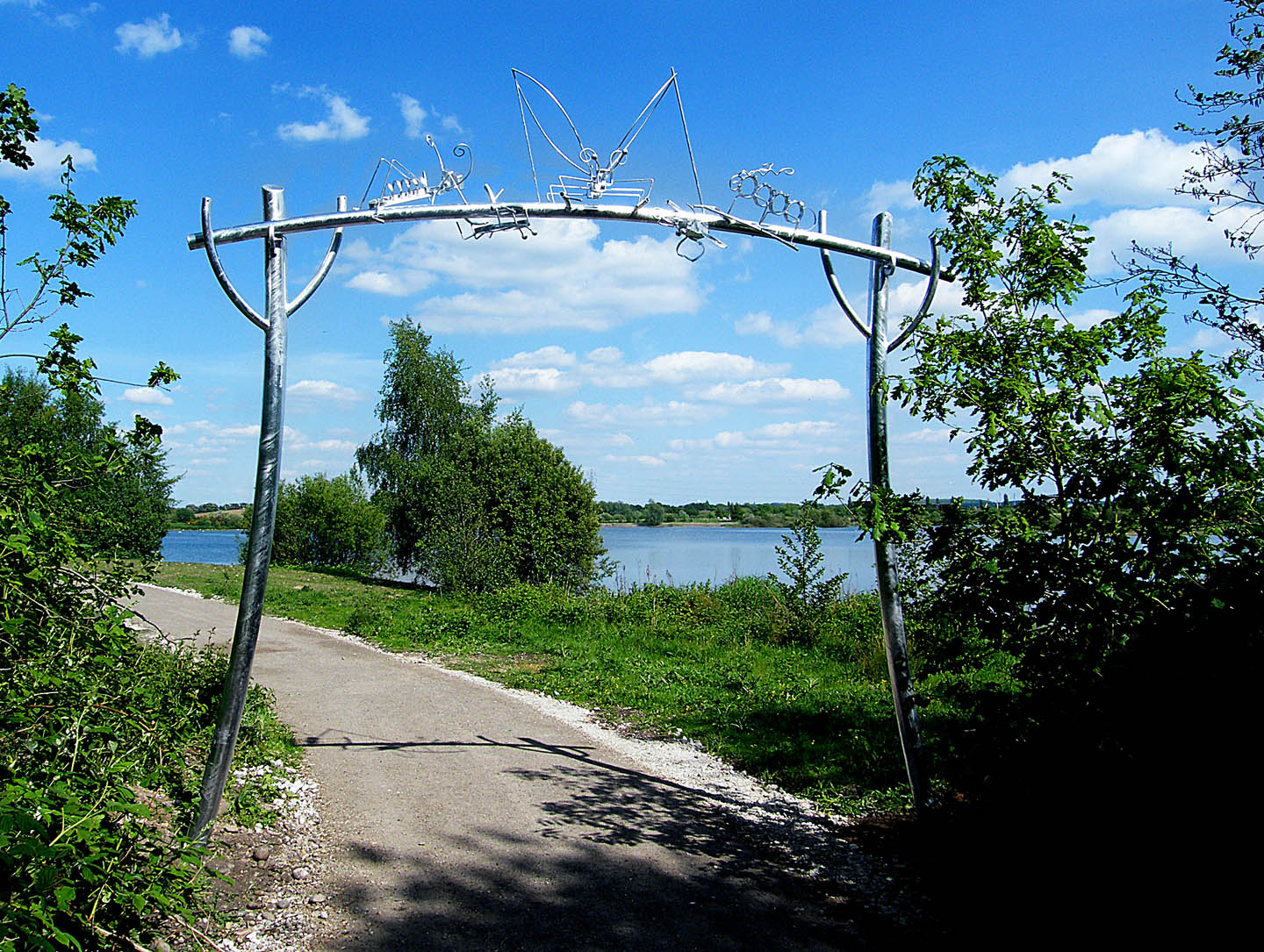 Artistic metalwork arch to mark the entrance to one of the woods around Belmoor Lake on the Idle Valley Nature Reserve